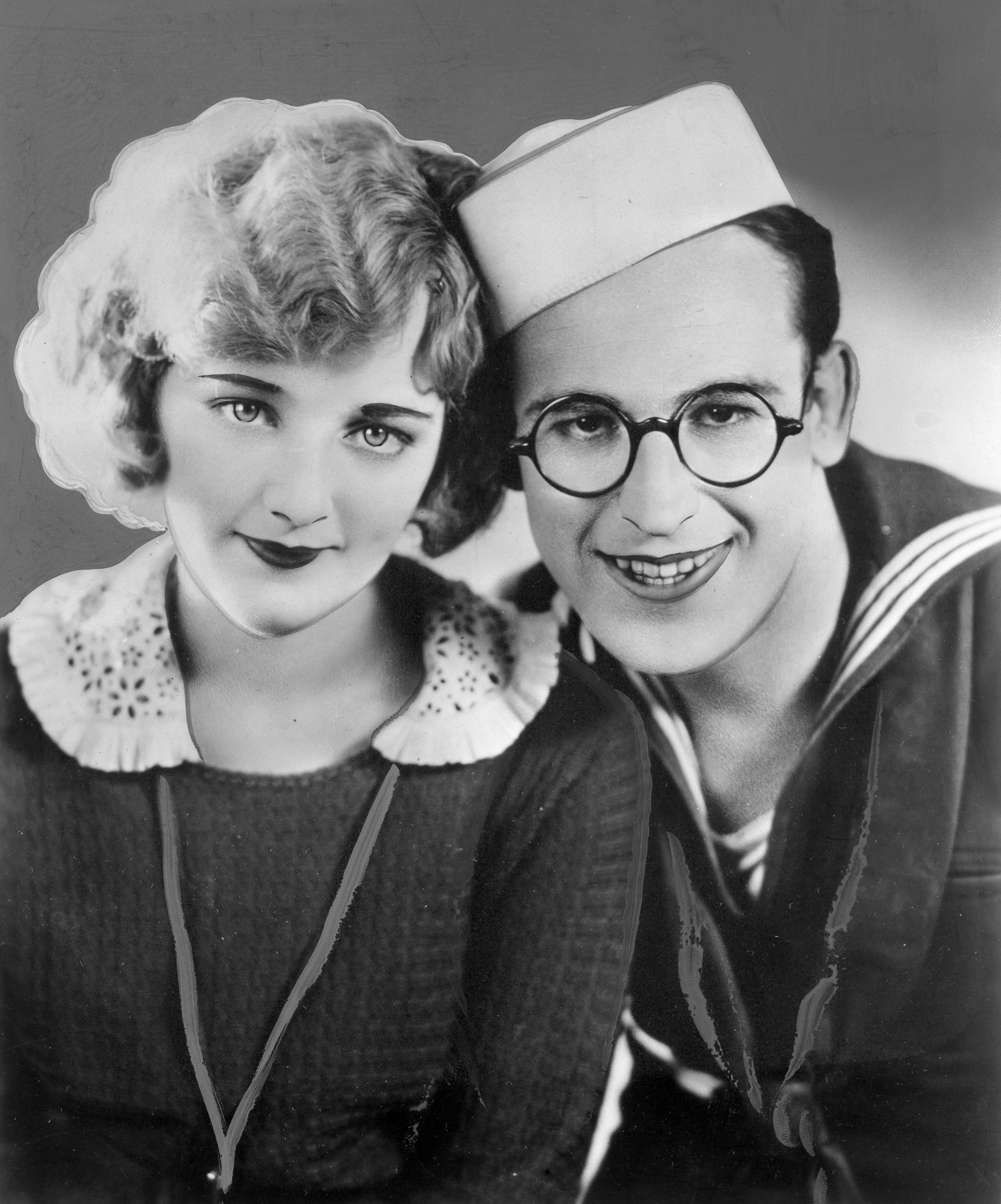 Comedian Harold Lloyd's first feature length production, A Sailor-Made Man (1920), was filmed in Laguna Beach. There are no known copyright restrictions on this image. All future uses of this photo should include the courtesy line, "Photo courtesy Orange County Archives." Comments are welcome after reading our Comment Policy. Photo collected during research for the Orange County Archives' 2011 exhibit, "On Location: Silent Film In Orange County."